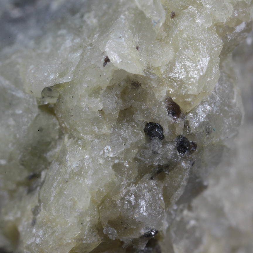 Atelestite Locality: Neuhilfe Mine, Neustädtel, Schneeberg District, Erzgebirge, Saxony, Germany Size: 3.1 x 2.7 x 1.1 cm Atelestite is an extremely rare bismuth hydroxy arsenate first reported/described from the Neuhilfe Mine in Saxony, Germany in 1832. This piece just happens to be from the type locality and features soft yellow color atelestite crystals on matrix. The piece is accompanied by a classic label from Czech mineral specialist, Josef Vajdak/Pequa Rare Minerals. You can read Joe's biography here